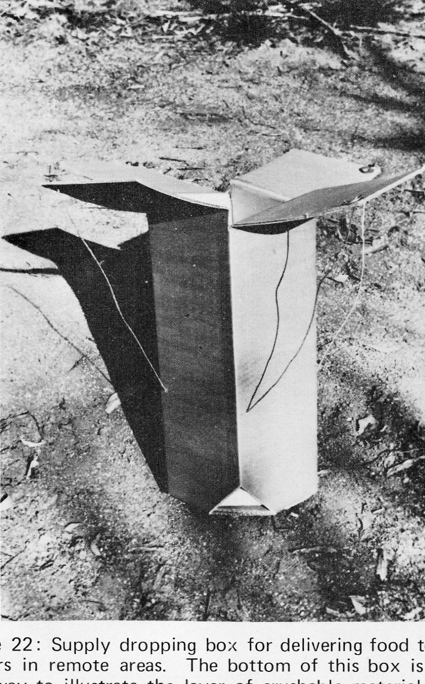 Heliibox - developed in 1964 by the Forests Commission Victoria which employed fold out wings to drop supplies safely to ground crews.